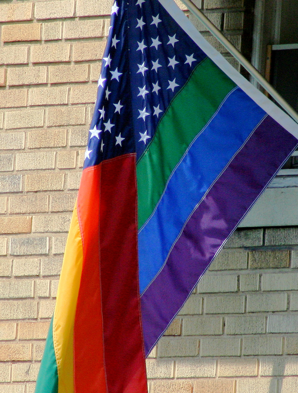 The rainbow flag, sometimes called 'the freedom flag', has been used as a symbol of gay and lesbian pride since the 1970s. The different colors symbolize diversity in the gay community, and the flag is often used as a symbol of gay pride in gay rights marches. It originated in the United States, but is now used around the world.